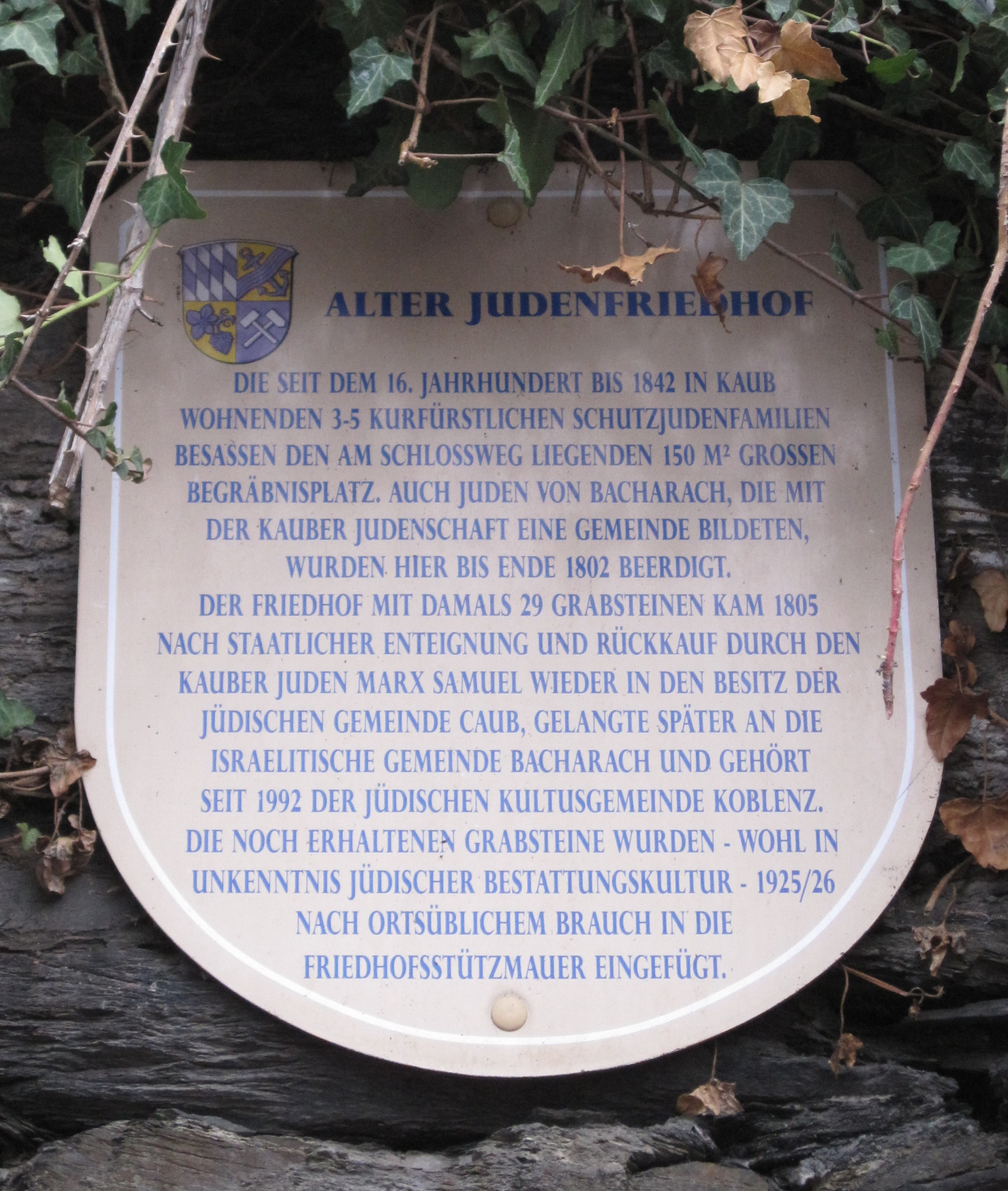 Old Jewish Cemetery. Schlossweg, Kaub, Rhein-Lahn-District, Rhineland-Palatinate, Germany